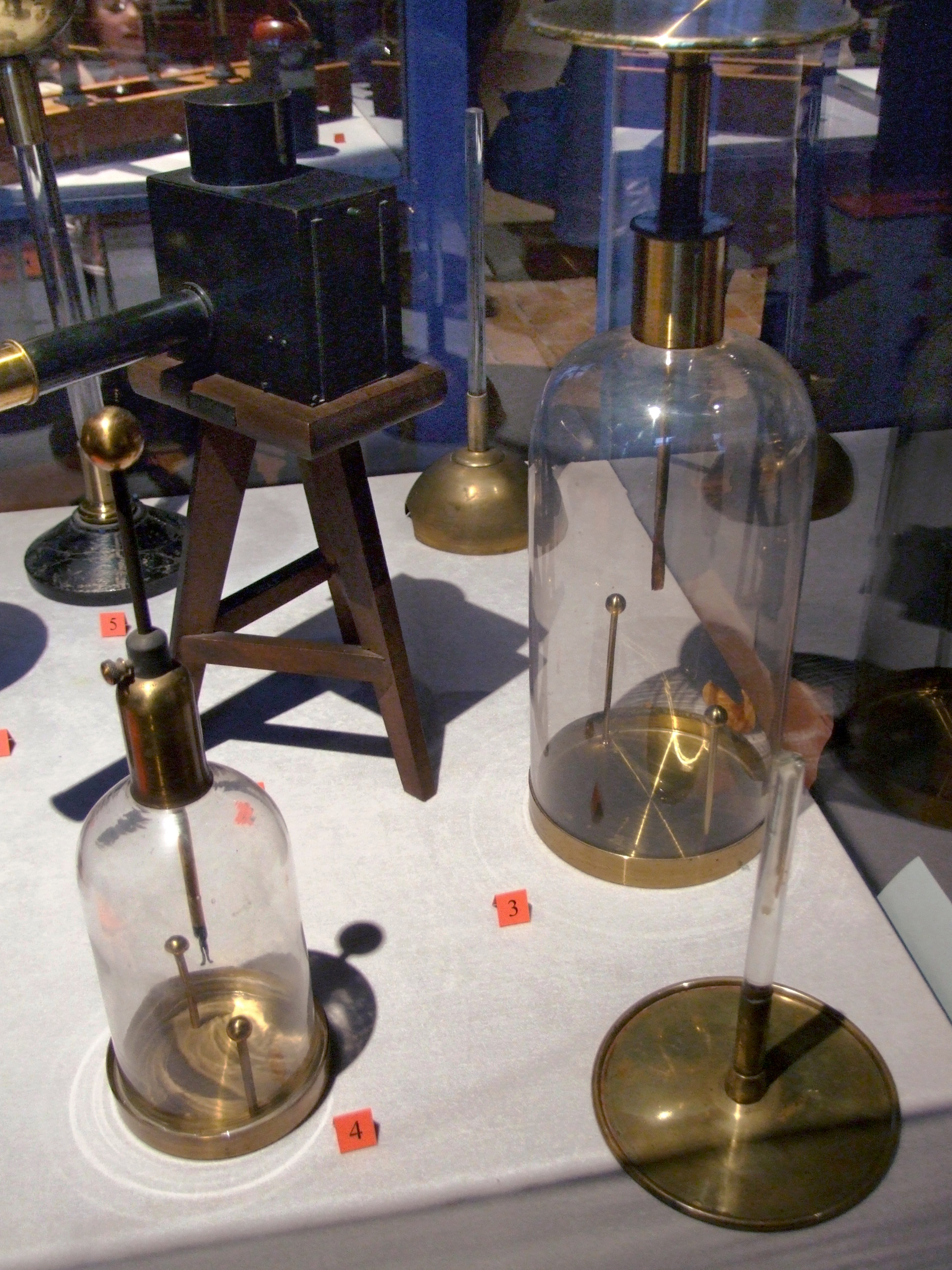 Electroscopes of the Volta type, High Voltage Exposition, October 18, 2008-January 5, 2009, Musée de la Vie Bourguignonne, Dijon, Burgundy, France